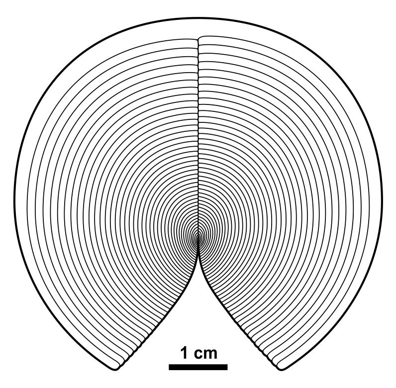 Schematic reconstruction of Ovatoscutum concentricium